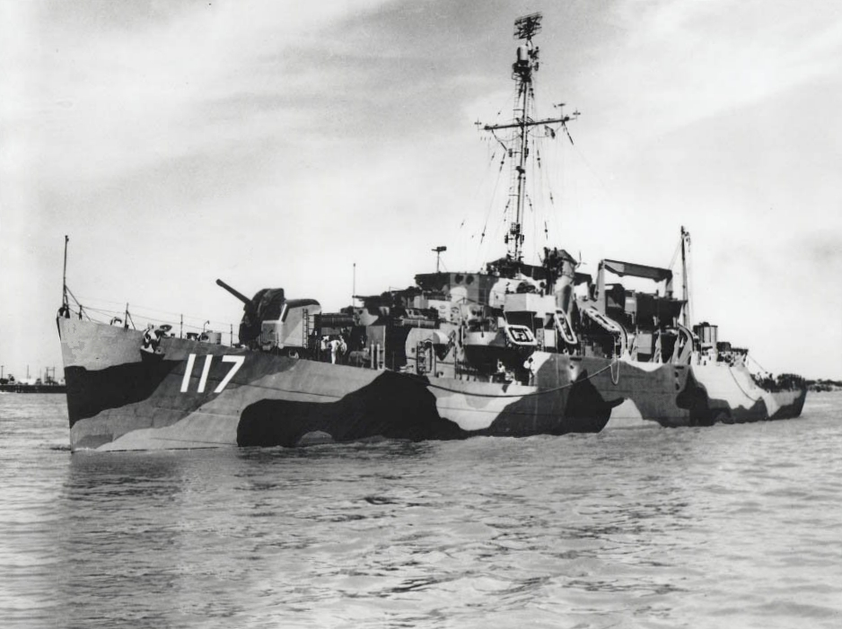 The U.S. Navy high-speed transport USS Joseph M. Auman (APD-117) off Orange, Texas (USA), on 30 April 1945, five days after commissioning. She is painted in Camouflage Measure 31, Design 5L.